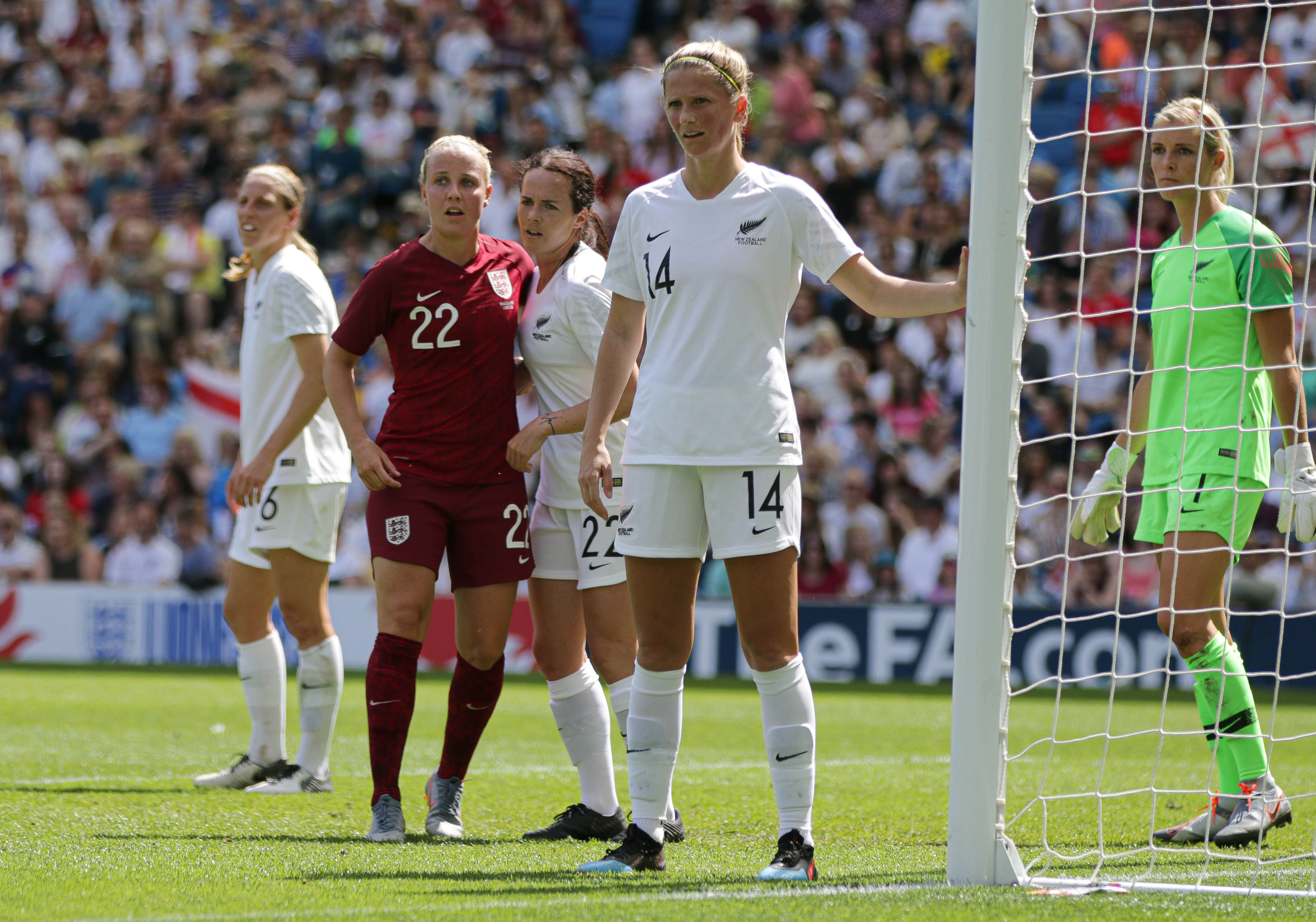 England Women 0 New Zealand Women 1 01 06 2019-998.jpg